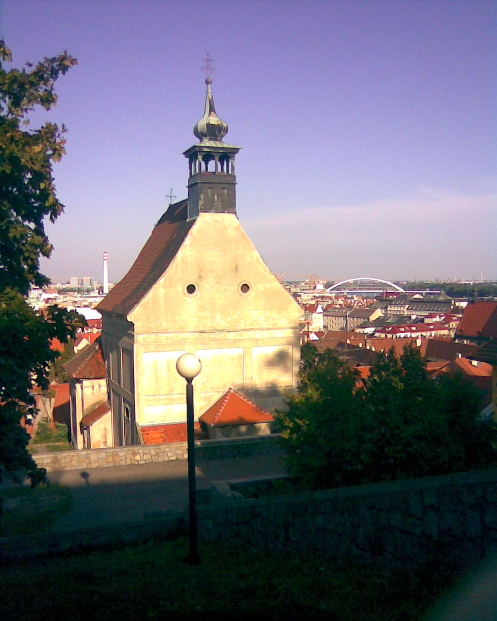 Church of St. Nicolaus in Bratislava